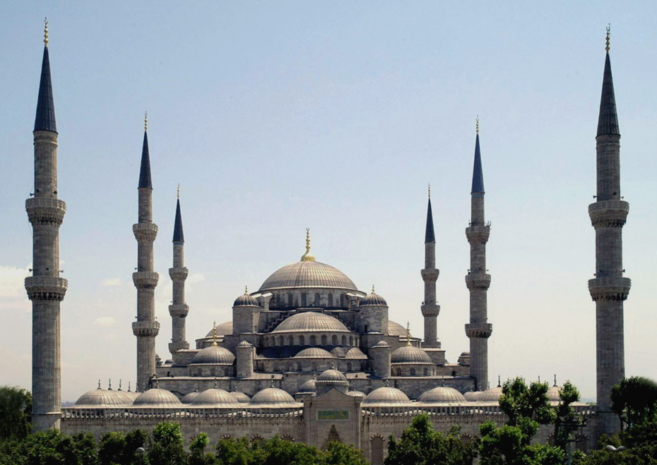 The Sultan Ahmed Mosque in Istanbul( The Blue Mosque ), Turkey.